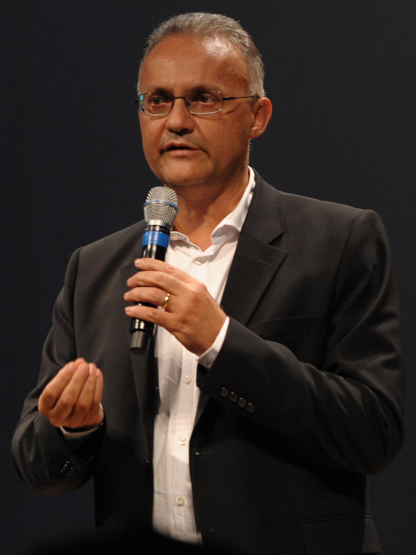 Mario Mauro.